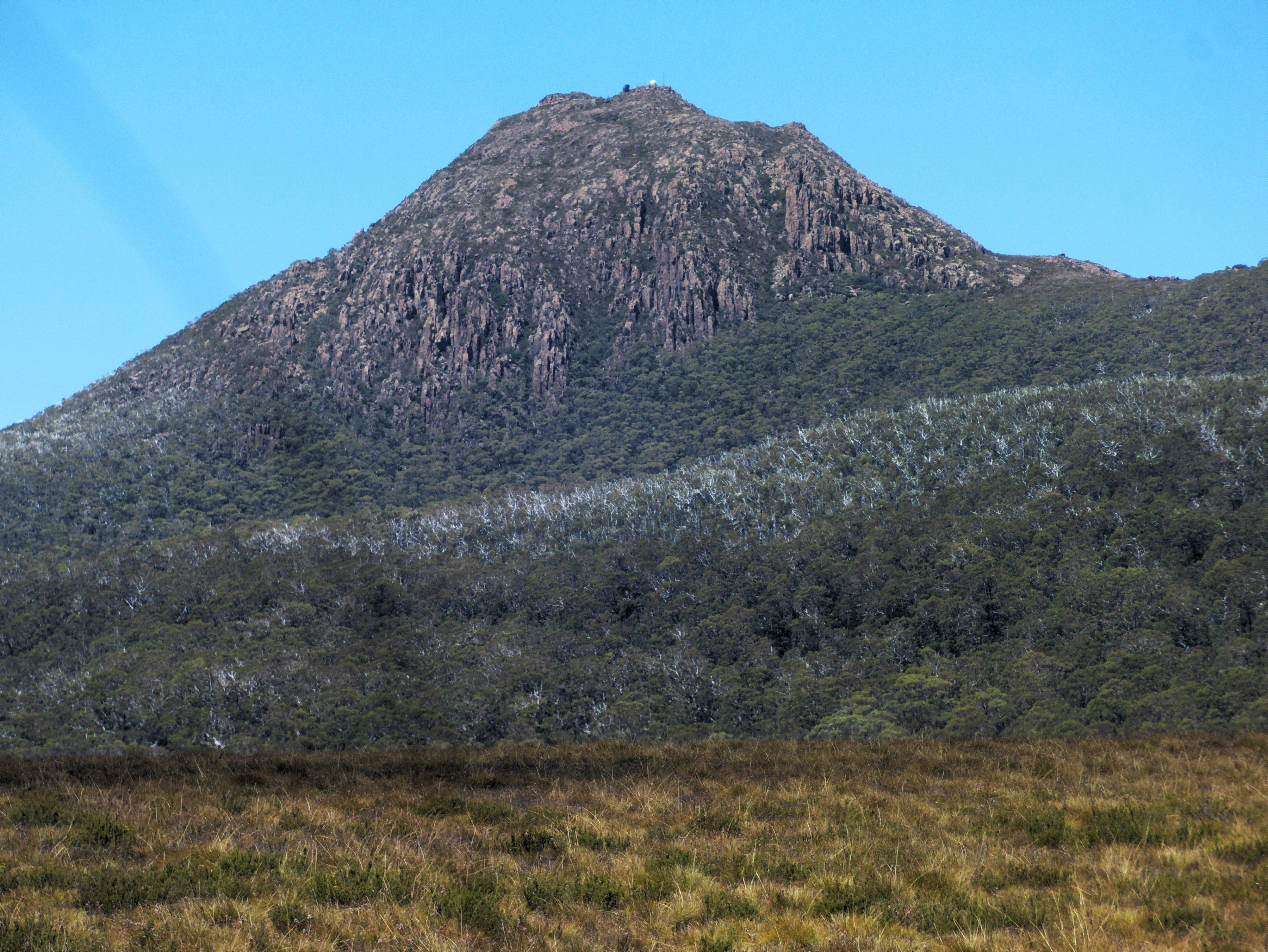 Mount King William I, Tasmania, seen from the King William Saddle. I'm guessing the strange arc from the top-left corner is a hair on the camera lens.